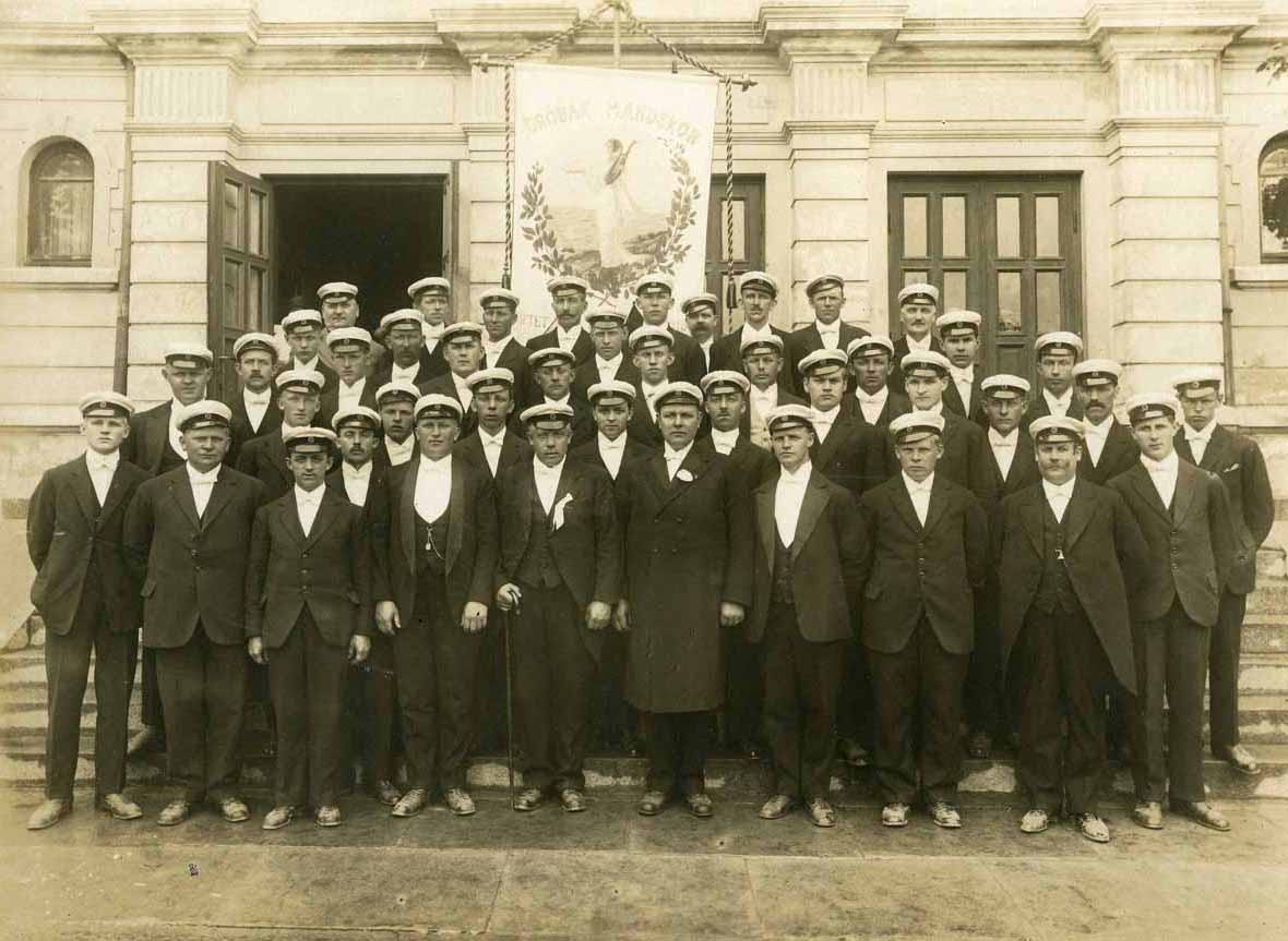 Drøbak Mans Choir in 1920